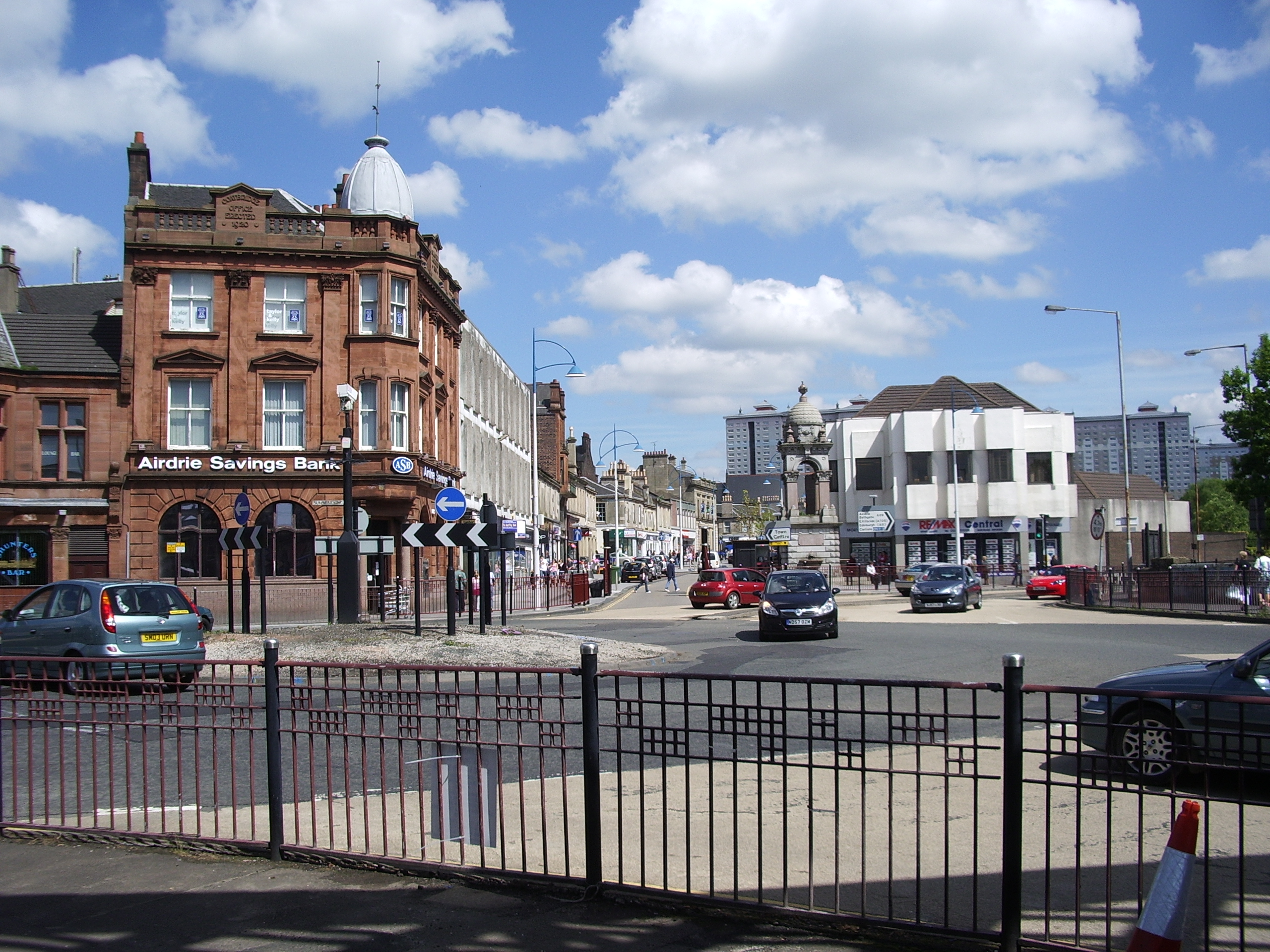 The Whitelaw Fountain and Main Street of Coatbridge.